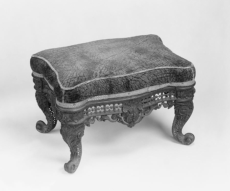 American; Footstool; Furniture